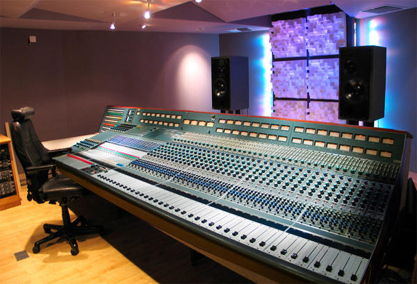 The legendary Neve 8078 in The Way Recording Studio, London. Custom vintage Neve 8078 console